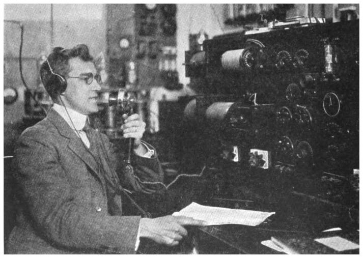 Original picture caption: A UNIVERSITY PROFESSOR LECTURES TO THE WHOLE MIDDLE WEST: On the principle that the citizens of the State of Wisconsin who support the University of Wisconsin are entitled to such privileges as the institution can extend to them, the officers of the university are carrying on "certain forms of extra-mural teaching" by means of radio broadcasting. This picture shows Prof. Alfred B. Haake delivering a talk on economics. Some of the lectures have been heard as far west as the Rockies and as far east as New England.